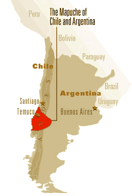 Mapuche map